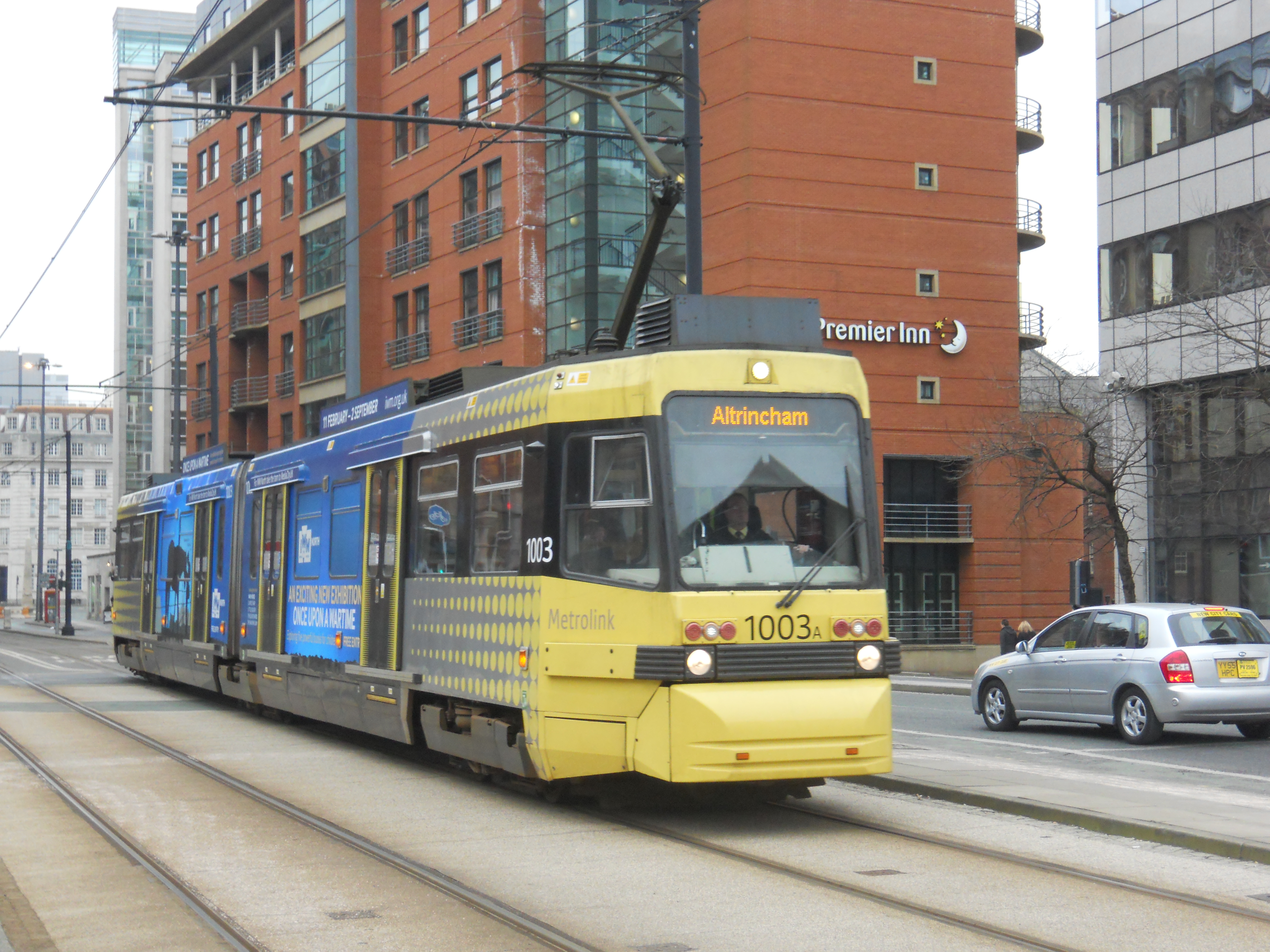 Taken on Saturday 4th Februrary, this was about an hour or so before the snow started to come down thick and fast. This by the way is the new livery for the trams